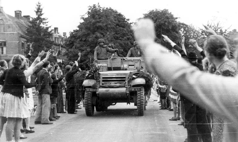 An armed vehicle of the US Army 30th Division ("Old Hickory") arrives in Sint Lambertuslaan in Maastricht, Netherlands, 14 or 15 September 1944. Collection of RHCL Maastricht, ref. nr. GAM 3833.